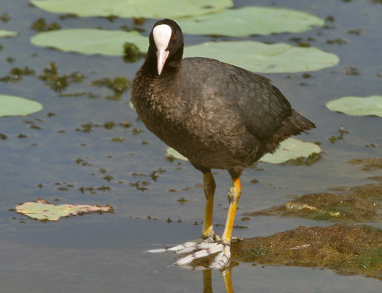 Eurasian Coot or Common Coot Fulica atra in an Indian Lotus pond at Lotus Pond, Hyderabad, India.